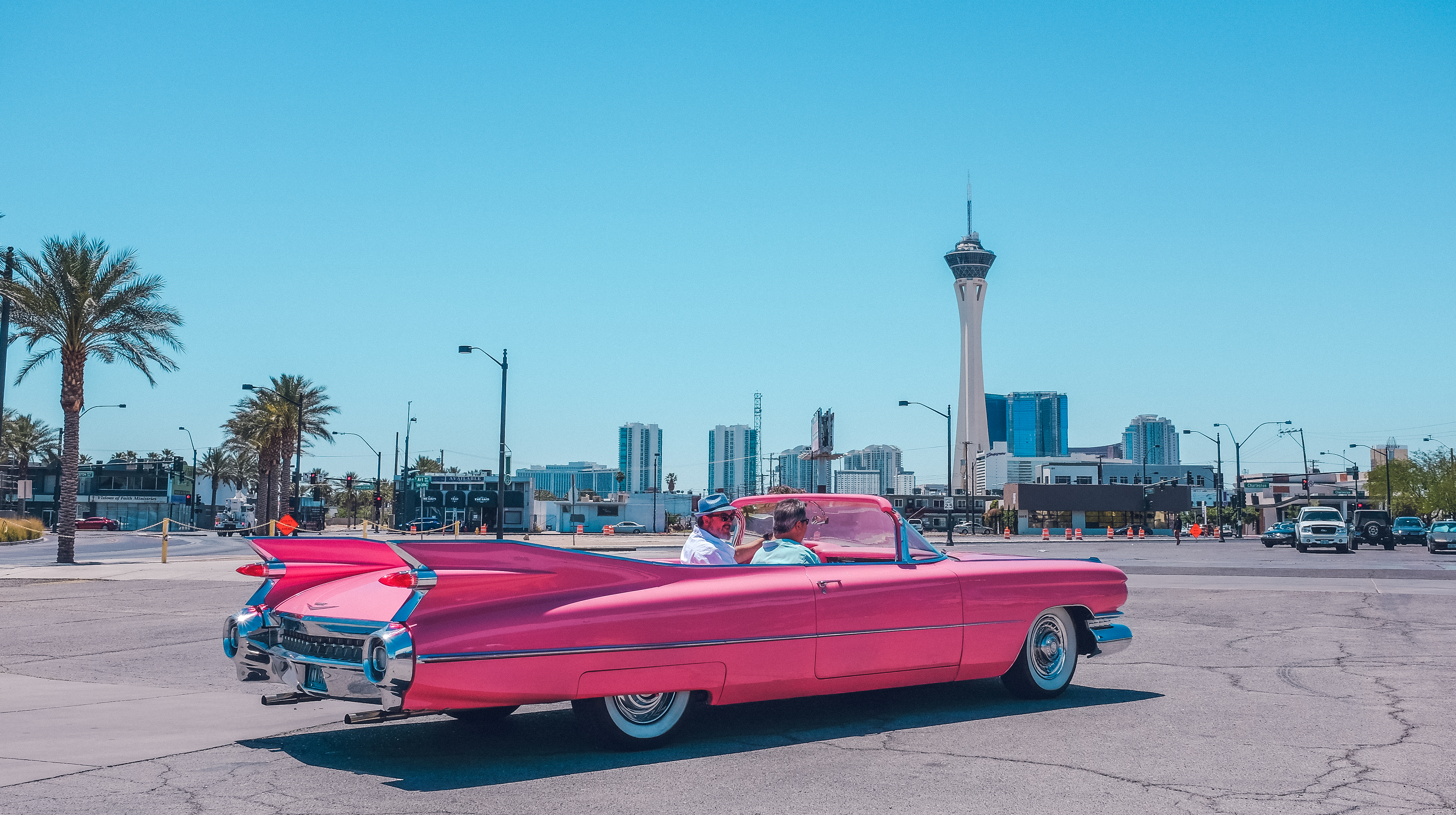 Arts District, Las Vegas, United States